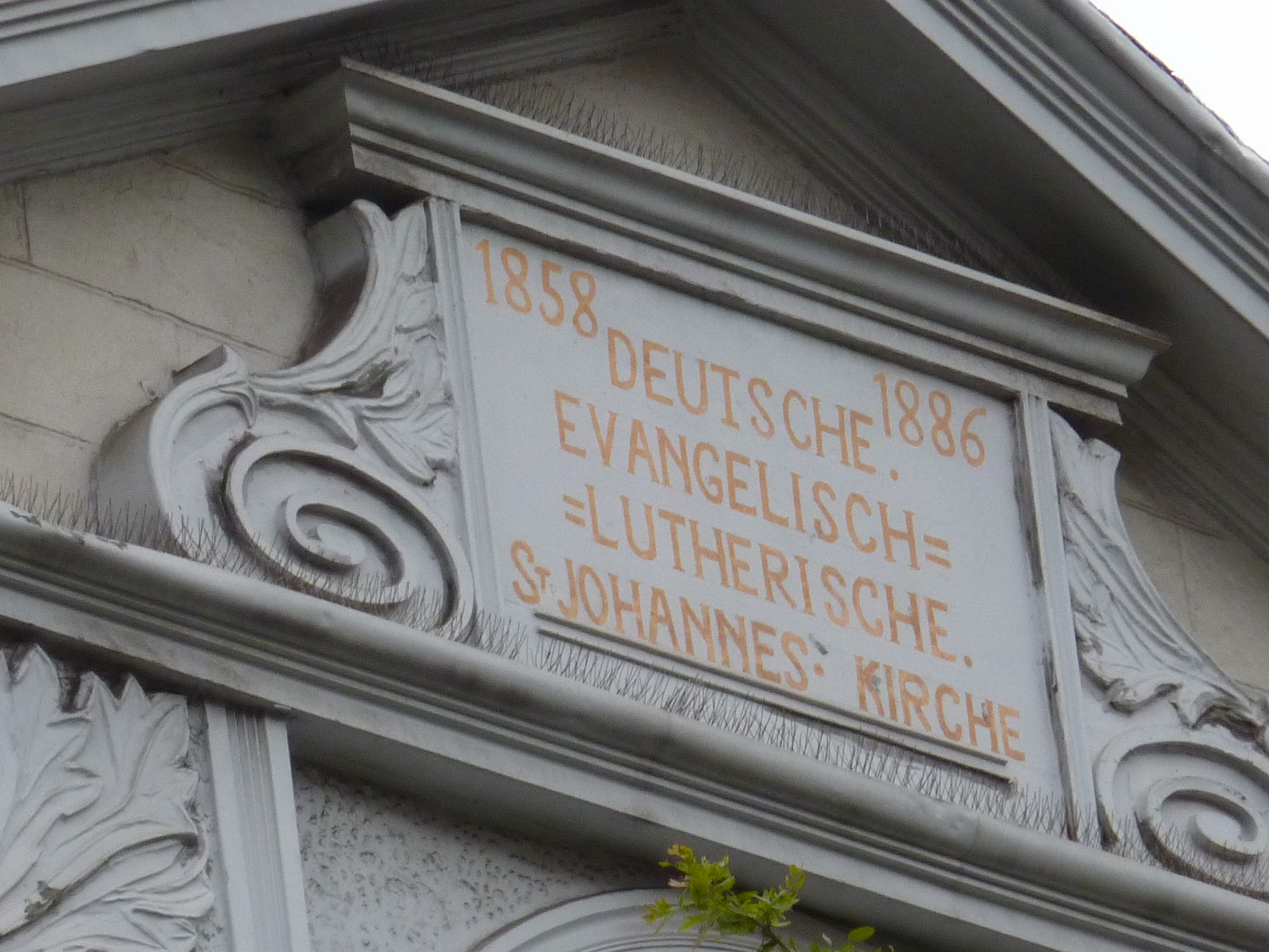 Christopher Street/St. John's Evangelical Lutheran Church (Manhattan)